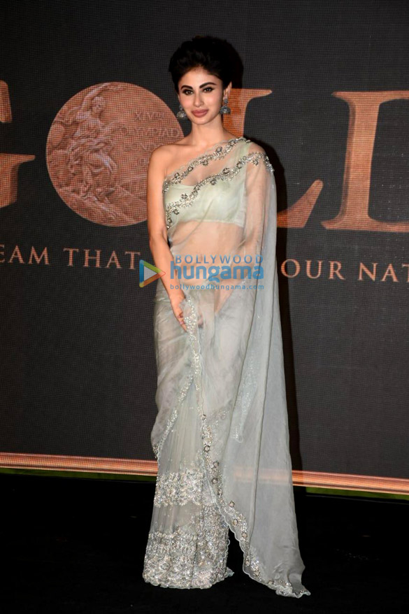 Mouni Roy launch Naino Ne Baandhi song from Gold